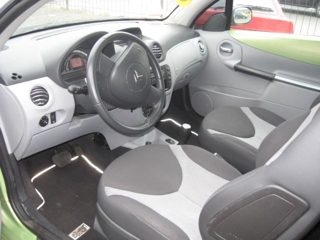 Citroën C3 Pluriel inside